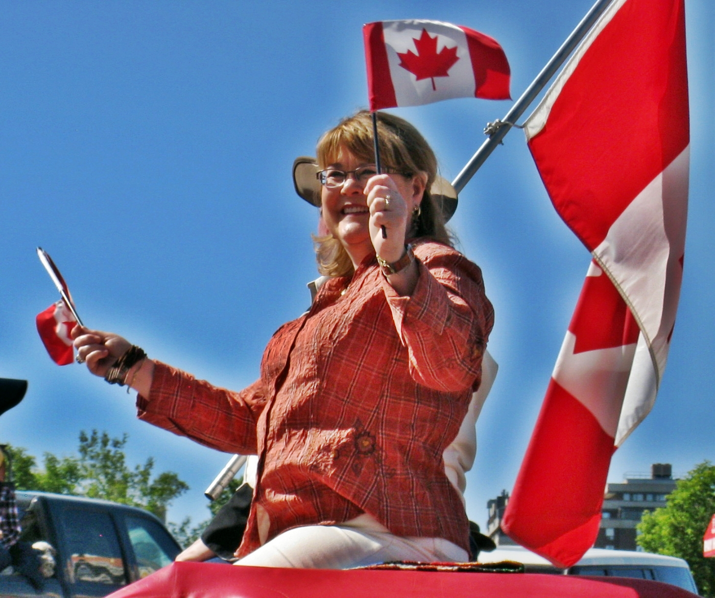 Politicians ride in the 2010 Calgary Stampede Parade. June 9, 2010 in Calgary, Alberta, Canada.